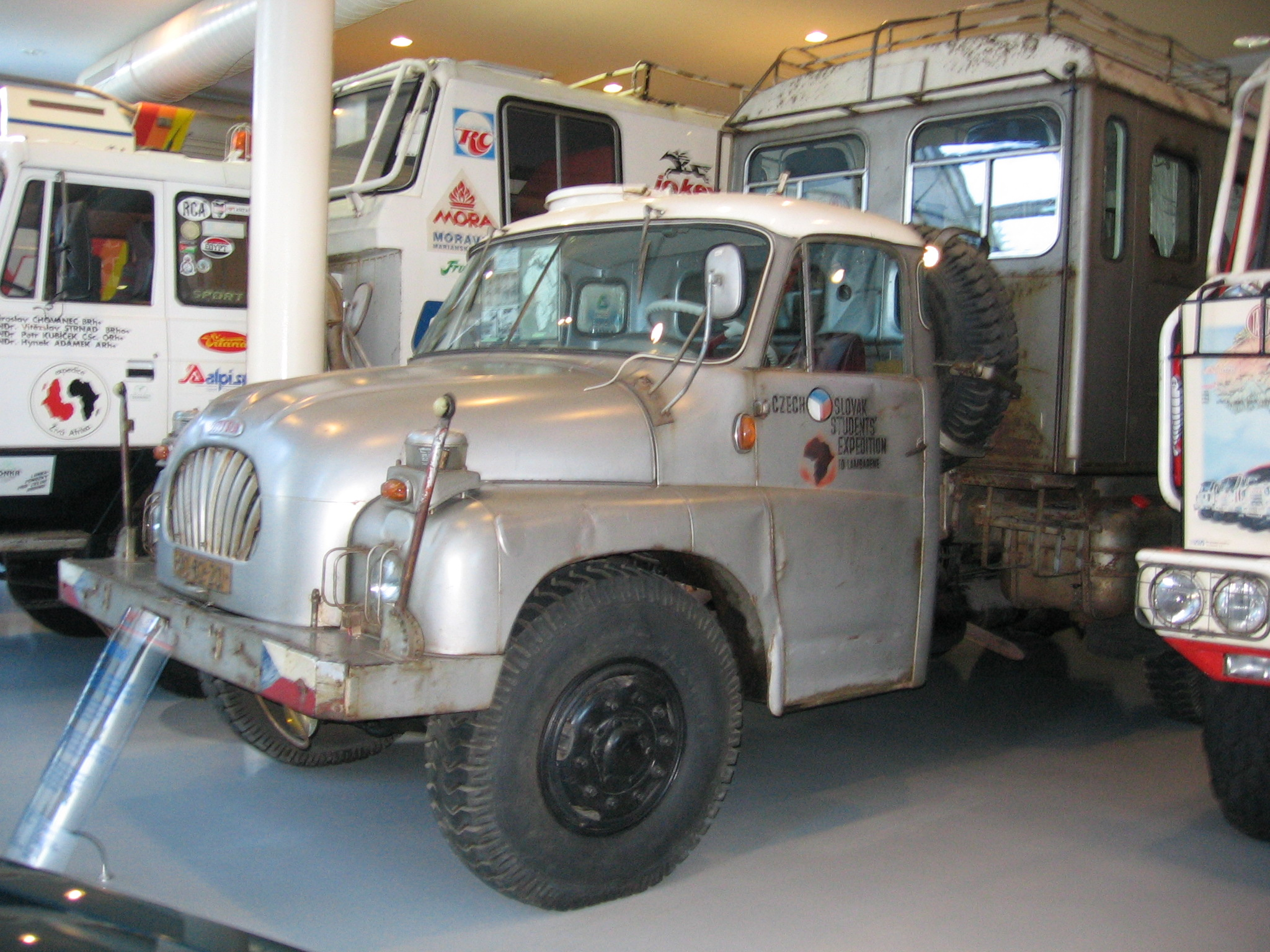 Tatra 138 6x6 VN from the expedition Lambarene